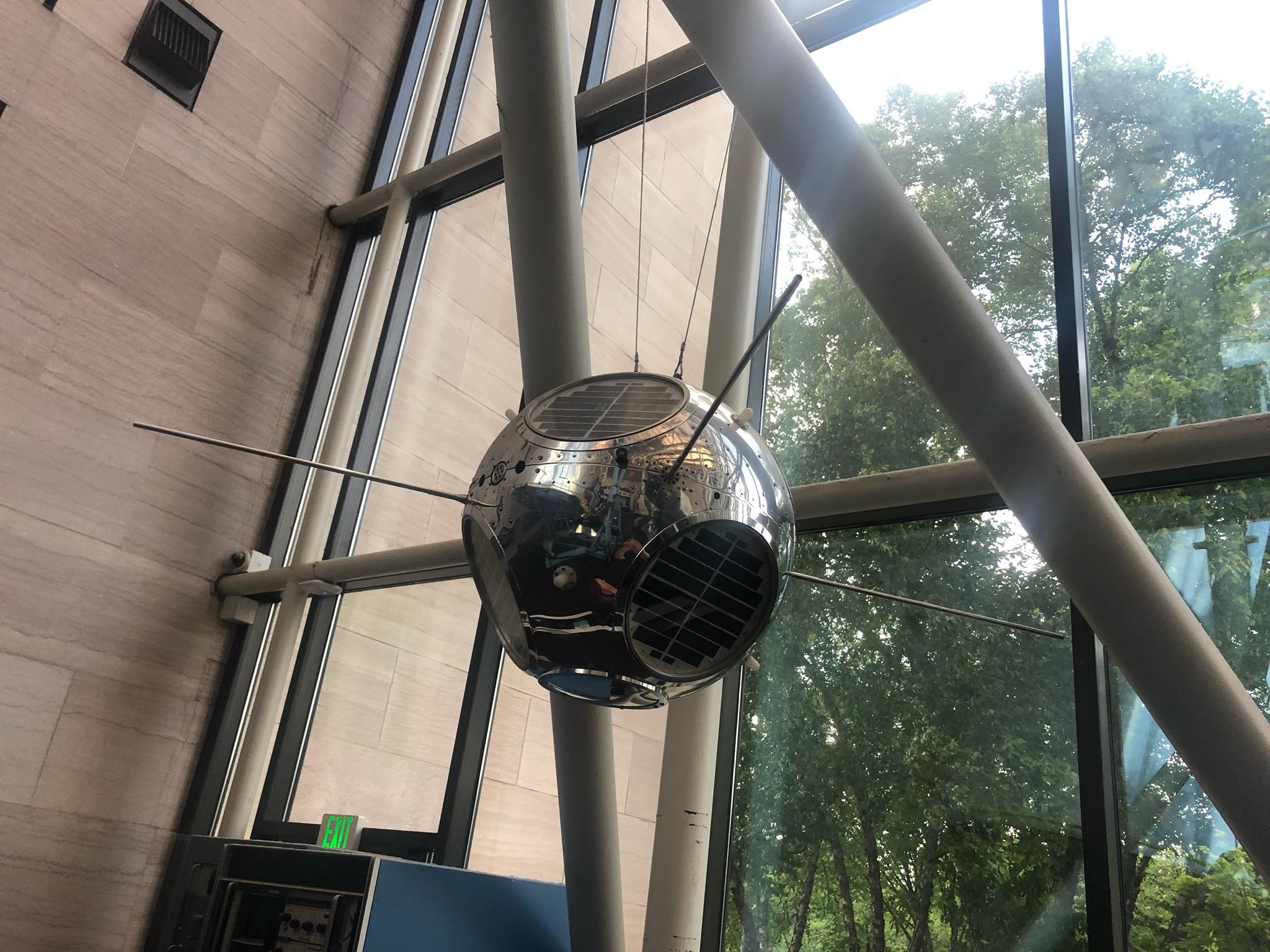 SOLRAD reserve at the National Air and Space Museum